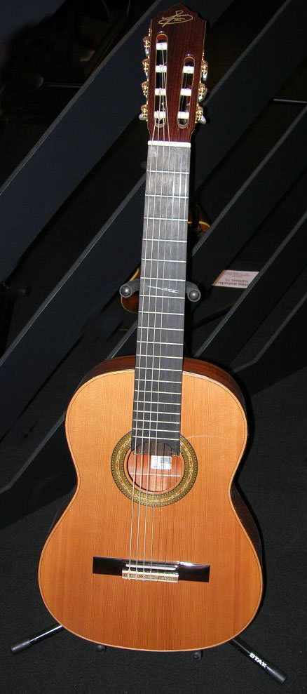 A seven-string guitar as it is used in brazilian choro music.